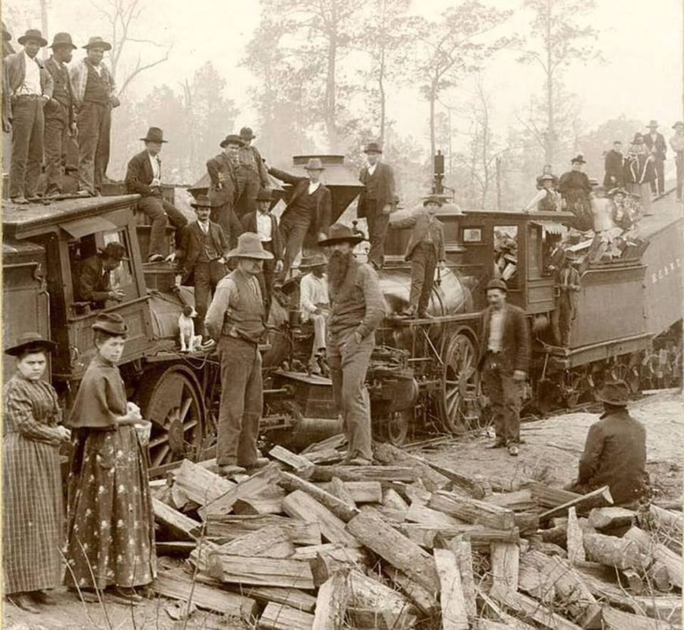 Train wreck near Lufkin in 1893